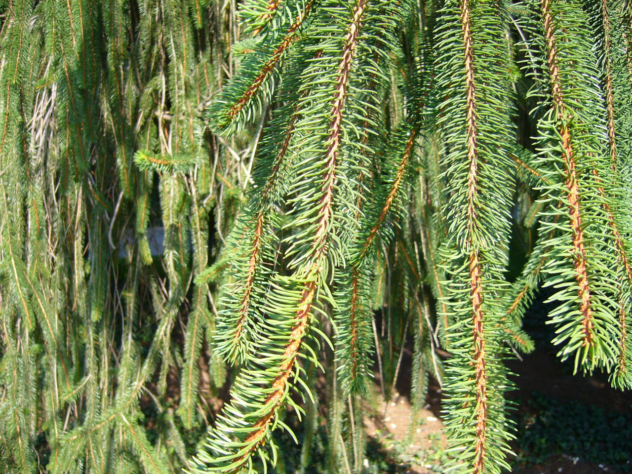 Picea abies 'Virgata': Hanging branchlets